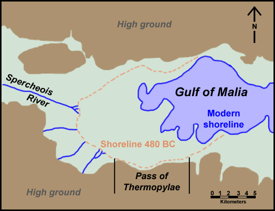 Map of Thermopylae area with modern shoreline and reconstructed shoreline of 480 BC. Loosely based on figure 3.19 in Geoarchaeology: The Earth-science Approach to Archaeological Interpretation, p. 96. George Robert Rapp, Christopher L. Hill. Yale University Press, 2006. ISBN 0300109660